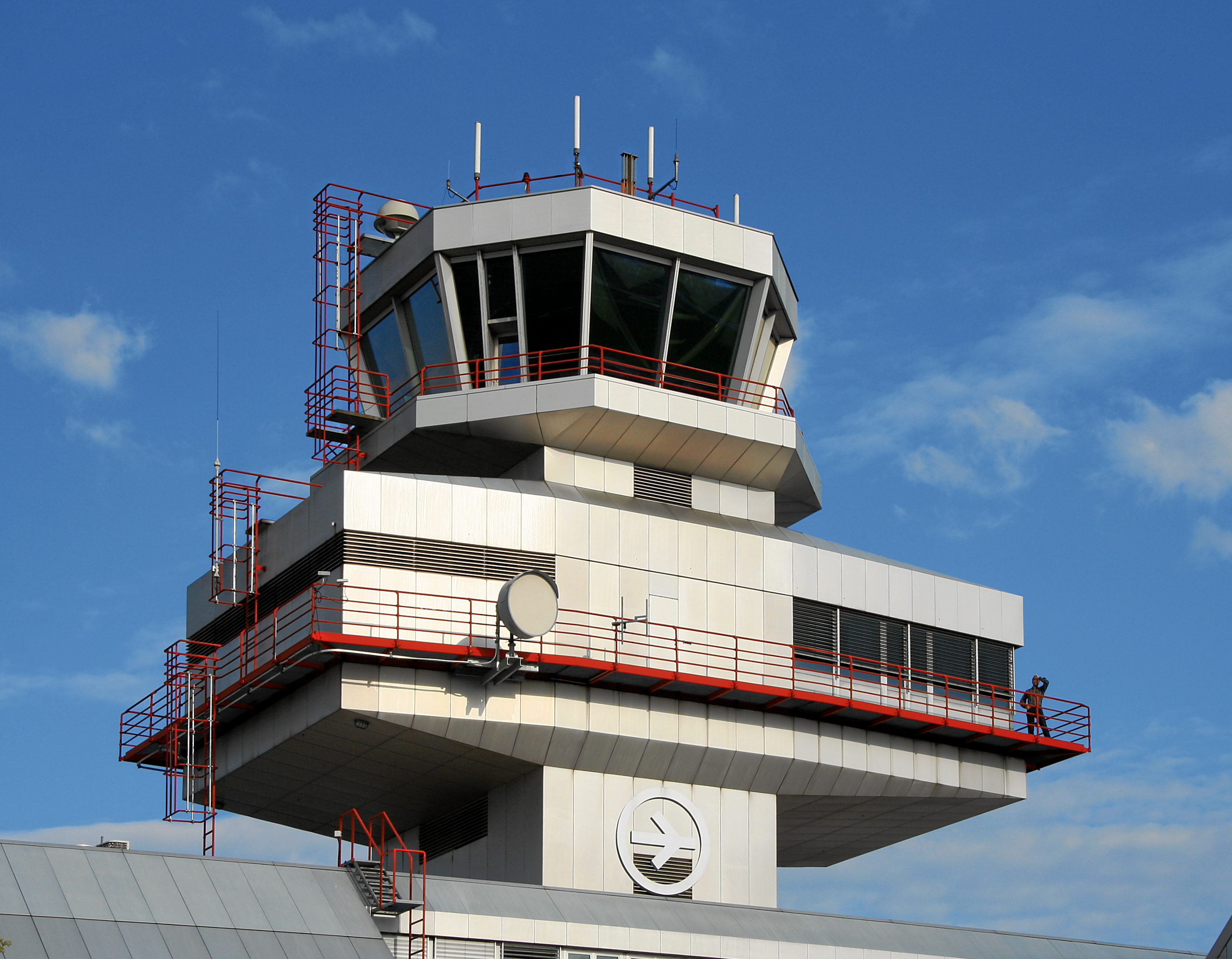 Control tower of the Blue danube airport, Linz